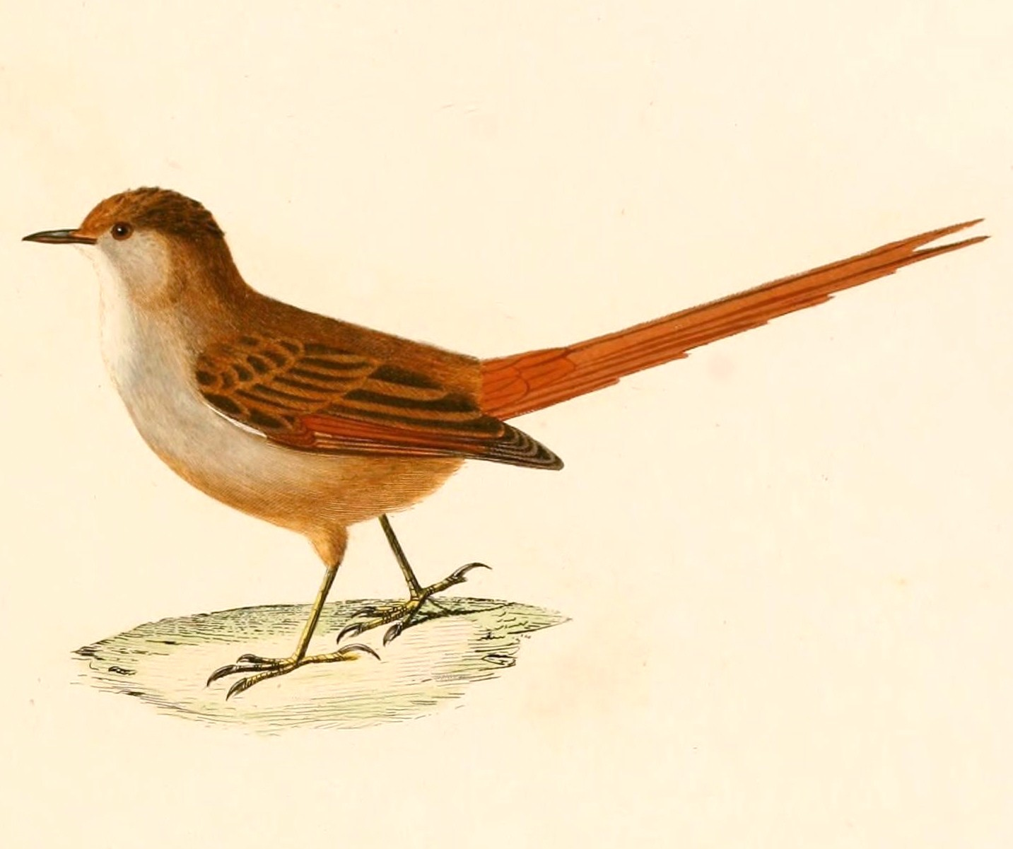 « Synallaxis fuliginiceps » = Leptasthenura fuliginiceps (Brown-capped Tit-Spinetail)